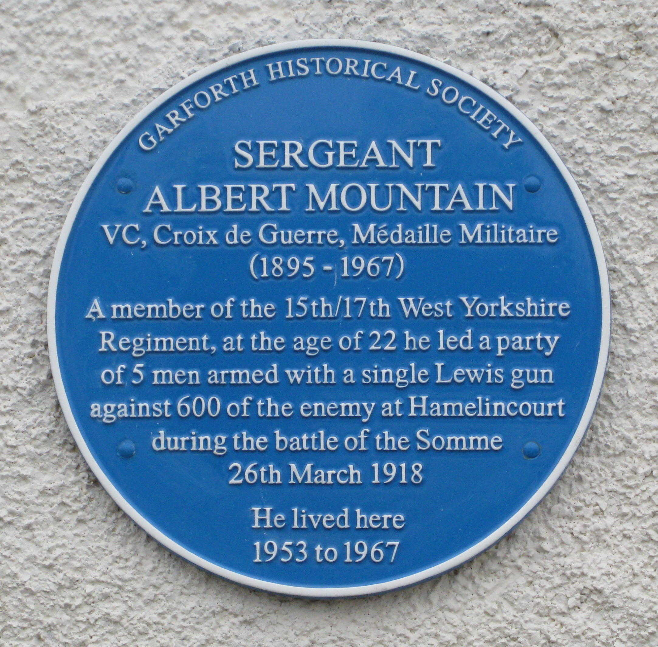 Blue plaque commemorating Sergeant Albert Mountain, on the wall of the Miners Arms, Garforth, Leeds